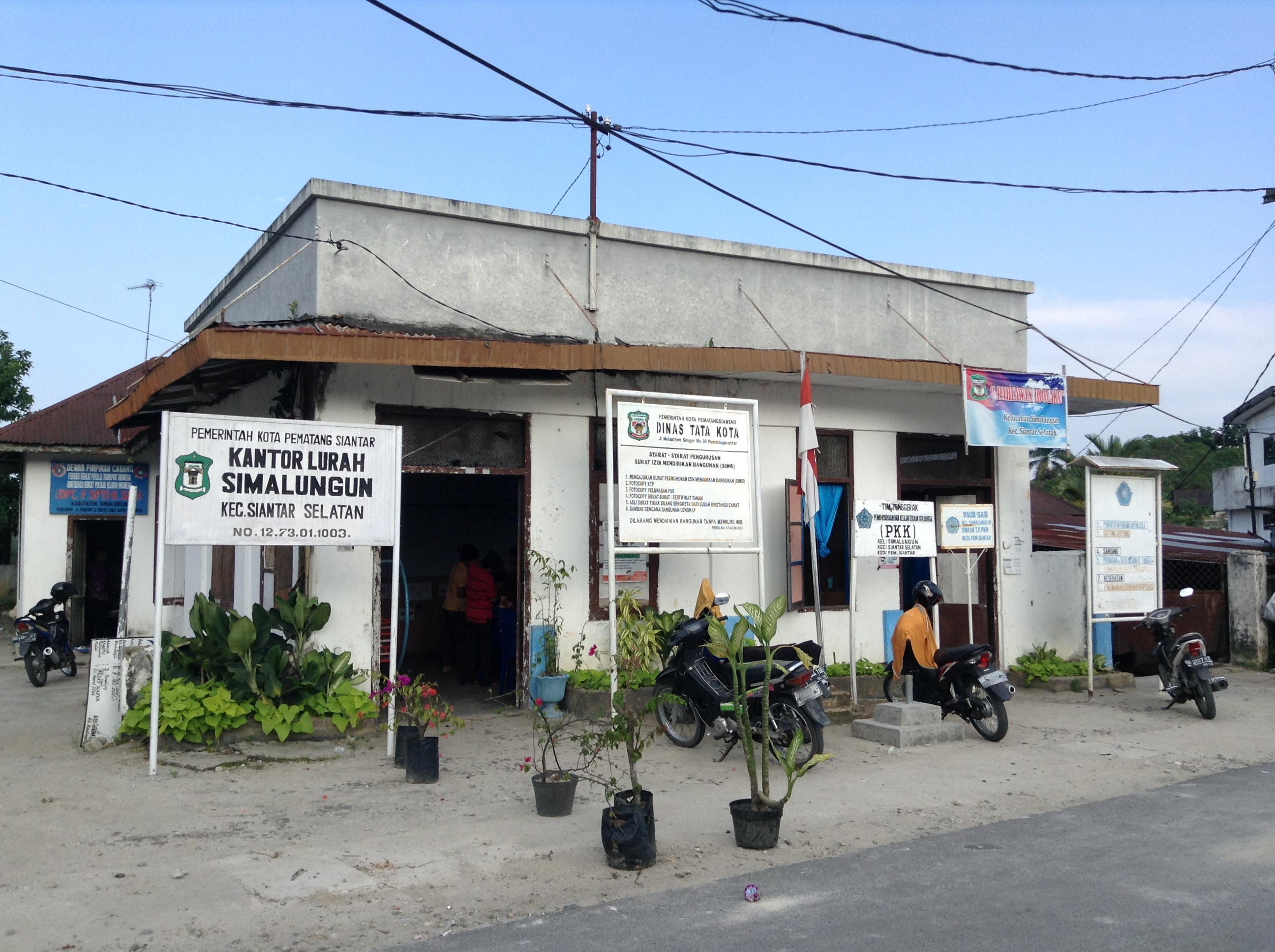 Office of Simalungun, Siantar Selatan, Pematangsiantar